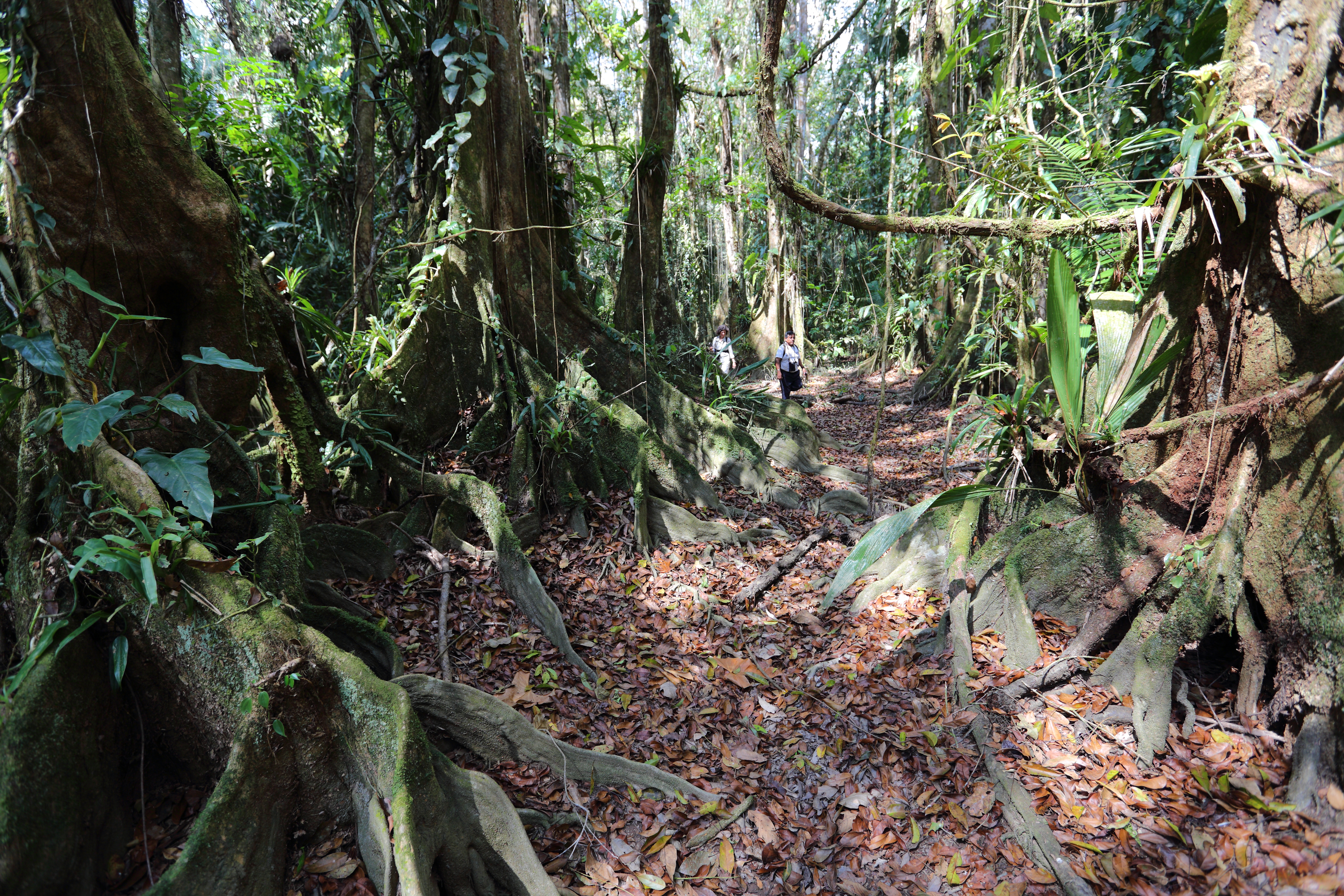 Cockscomb Basin Wildlife Sanctuary, Belize